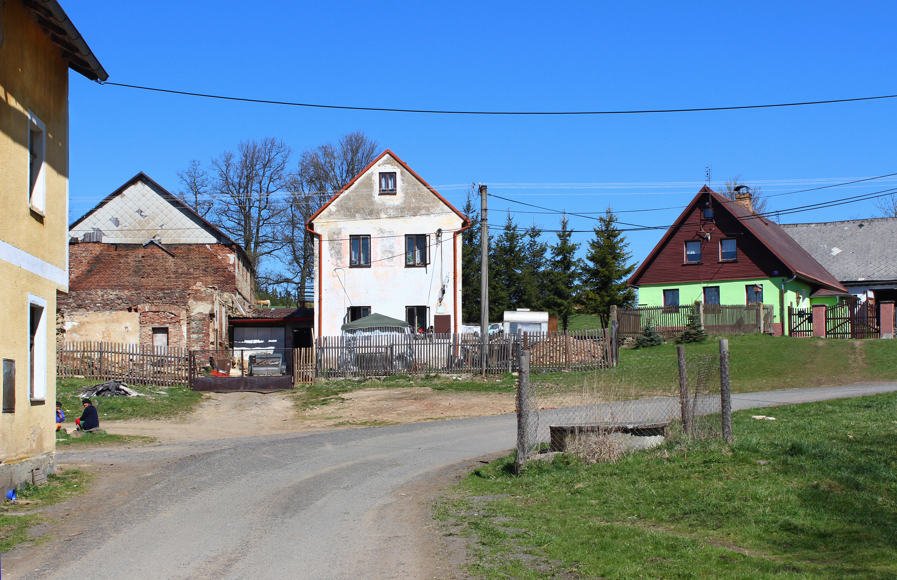 Common in upper part of Poutnov, part of Teplá, Czech Republic